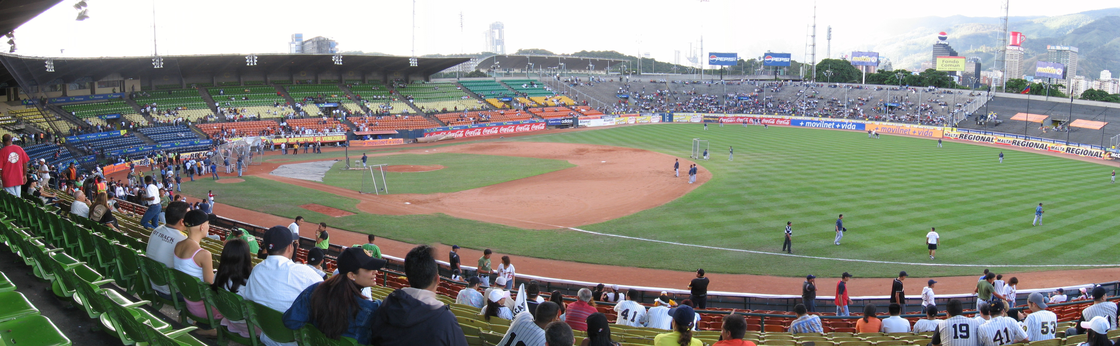 Estadio Olímpico de la UCV